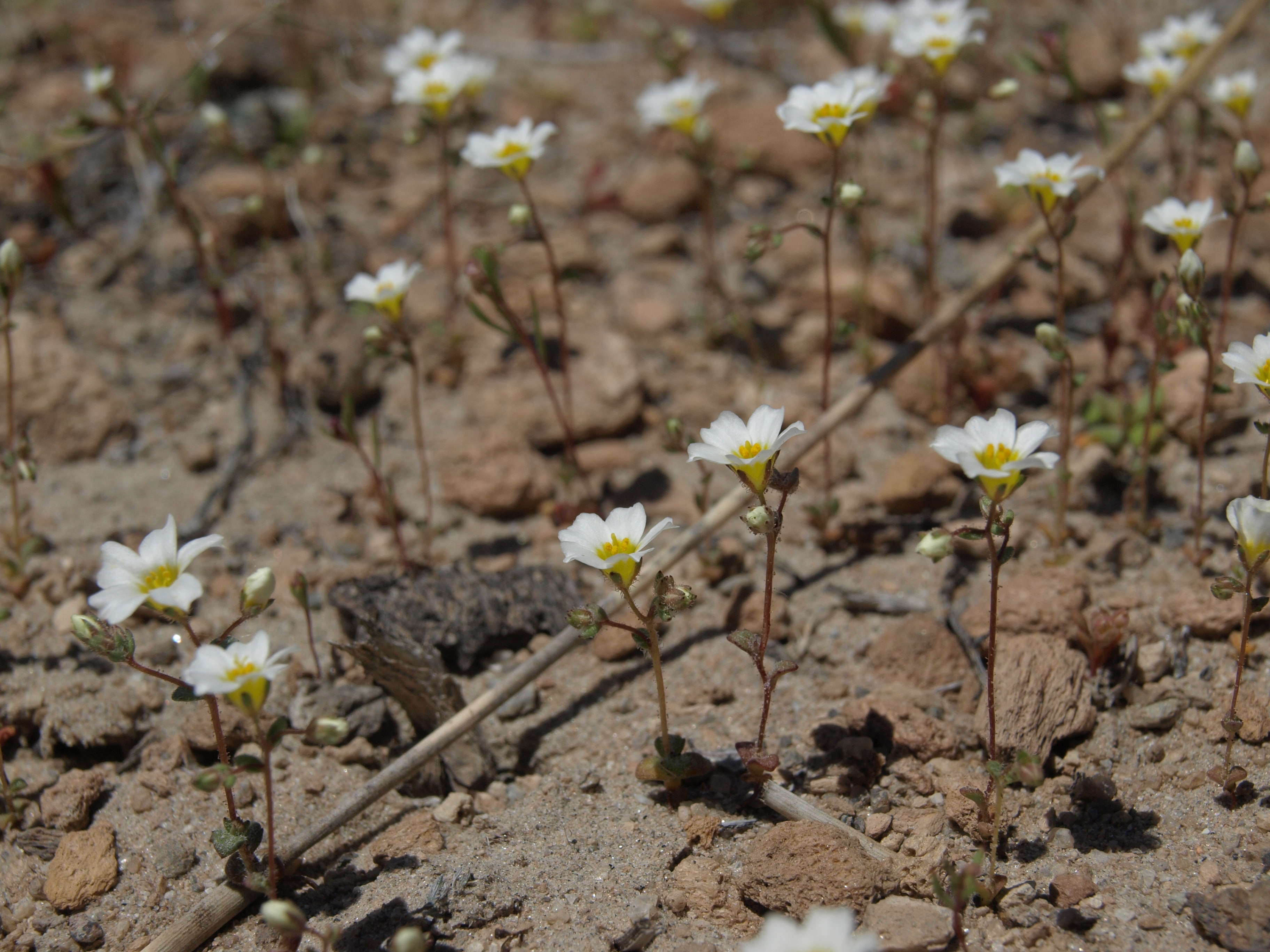 Inyo gilia, Linanthus inyoensis, California, Volcanic Tableland, Round Mountain, Owens Valley drainage, elevation 2281 m (7485 ft). This regional endemic annual is rarely seen outside of exceptionally wet years, when it can be locally abundant. Found mainly in sandy granitic soils along the east side of the Sierra Nevada in Inyo and Mono counties, California, and adjacent southwestern Nevada, mainly at about 1800-2600 meters (6000-8500 feet) elevation. The species also extends into the southern Sierra Nevada of Tulare and Kern counties, California, and disjunctly to the Desatoya Mountains of Lander County in central Nevada, where it has only been collected once. The species is very similar to Linanthus campanulatus, from which it is sharply distinct by its shorter flower tube.